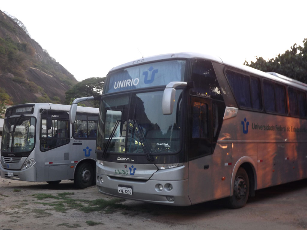 Bus-Unirio